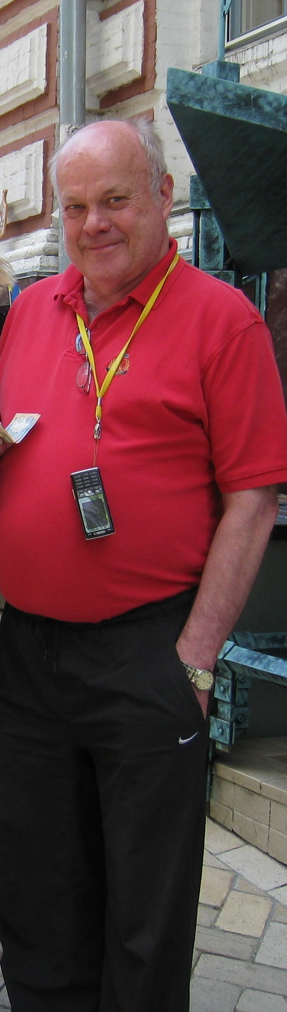 Photo of Sven-Ivan Sundqvist in Kiev, Ukraine June 30, 2008